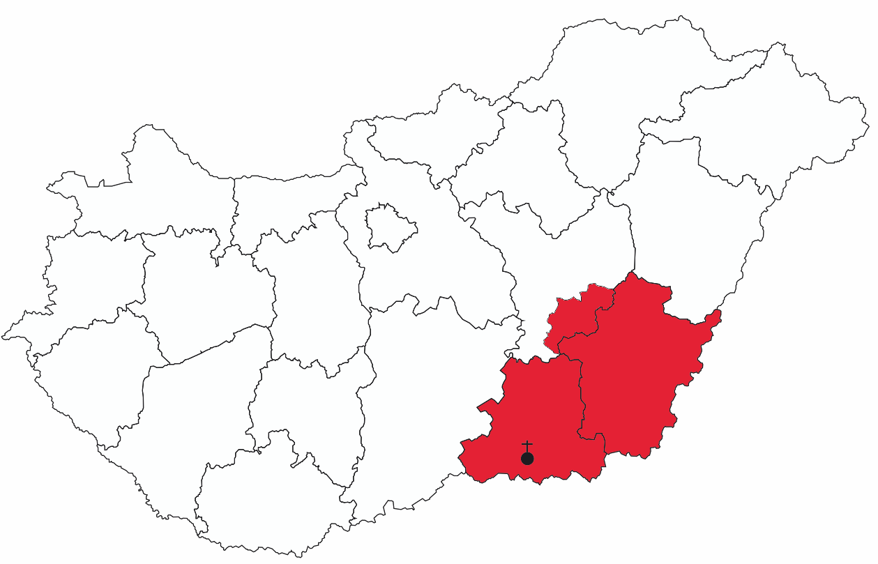 Map of the Roman Catholic Diocese of Szeged-Csanád, Hungary.